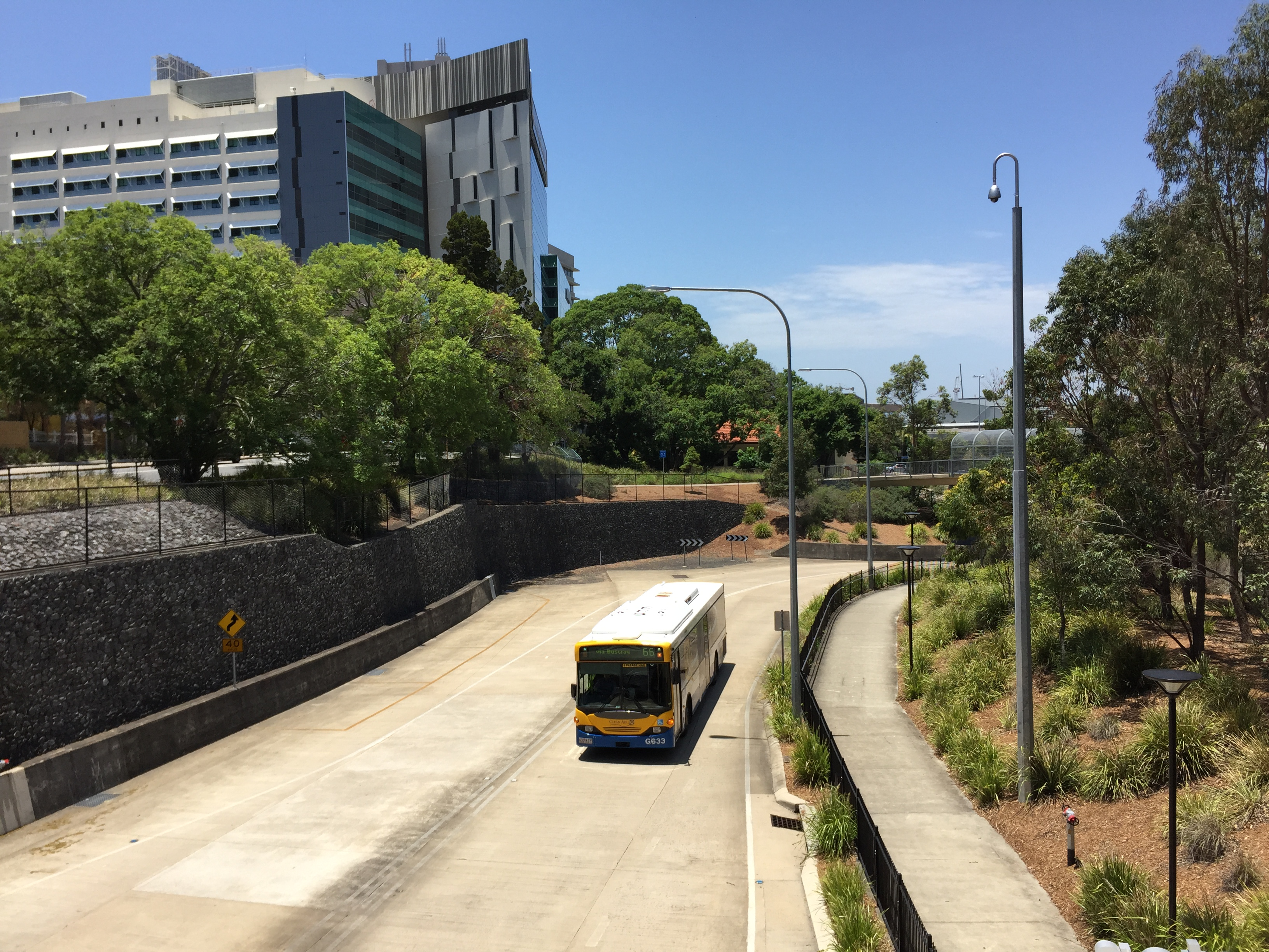 Northern Busway, Brisbane approaching Herston busway station, Herston, Brisbane, Queensland, Australia in Nov 2014.